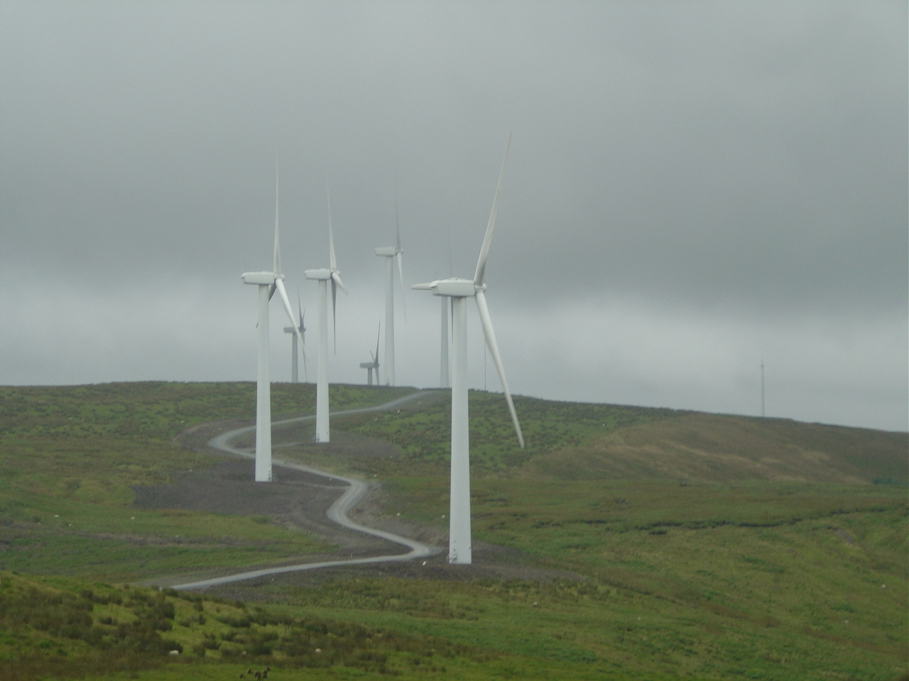 A photo taken towards the end of the construction of the Cefn Croes wind farm. Turbines 1, 2 and 3 can cleary be seen in the foreground along with the access road. Other turbines are visible in the distance. You can also, just about make out two weather monitoring masts, one in the centre and one towards the left of the shot.